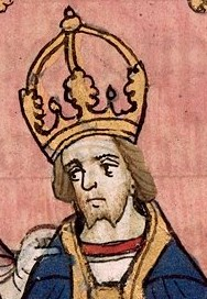 Henry of Luxembourg being crowned Emperor